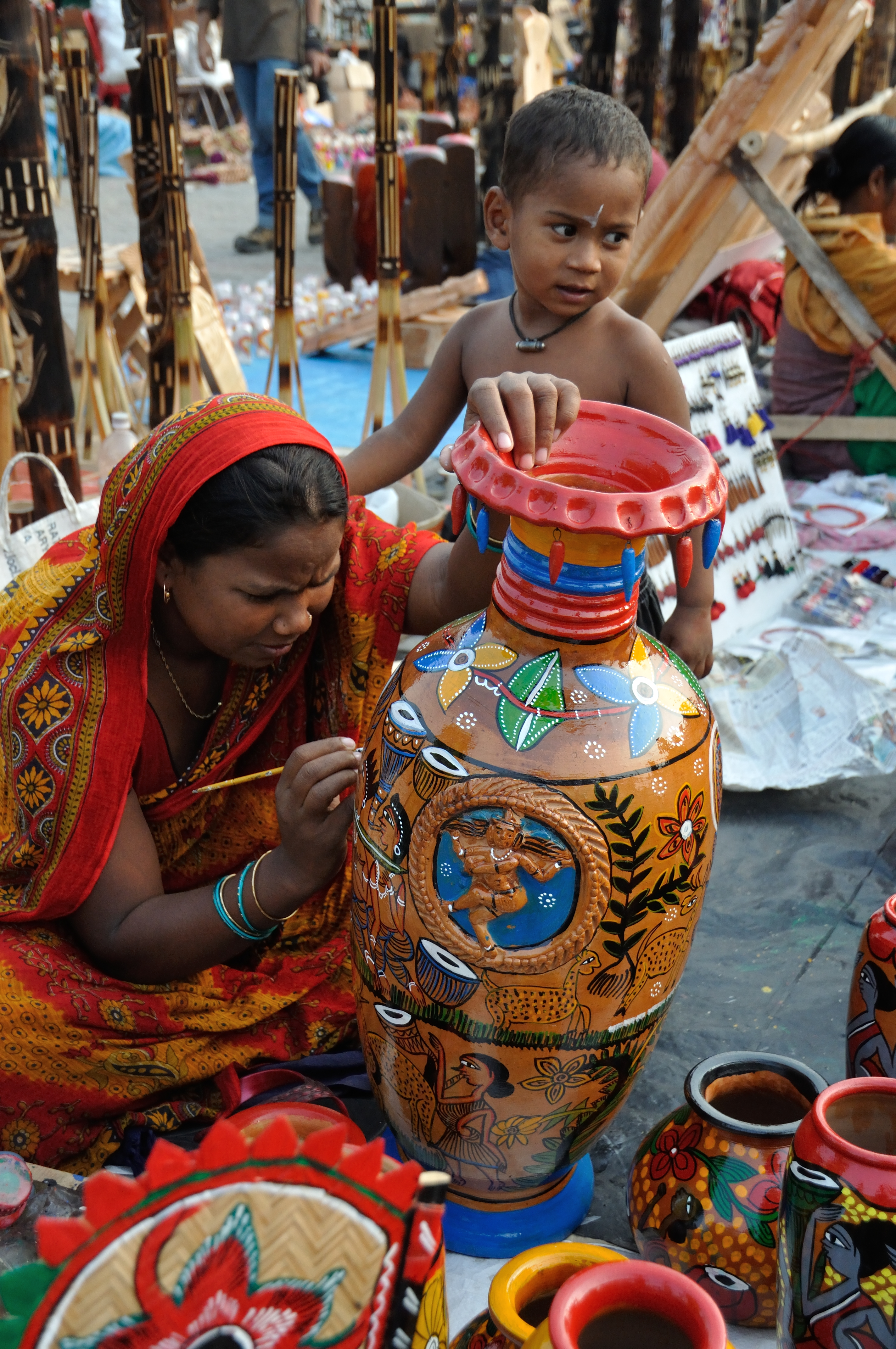 Photographed during the '22nd West Bengal State Handicraft Expo 2014' on Milan Mela Complex in Kolkata.